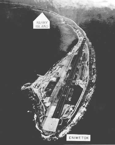 Aerial view of Enewetak after second world war, during nuclear weapon test period.